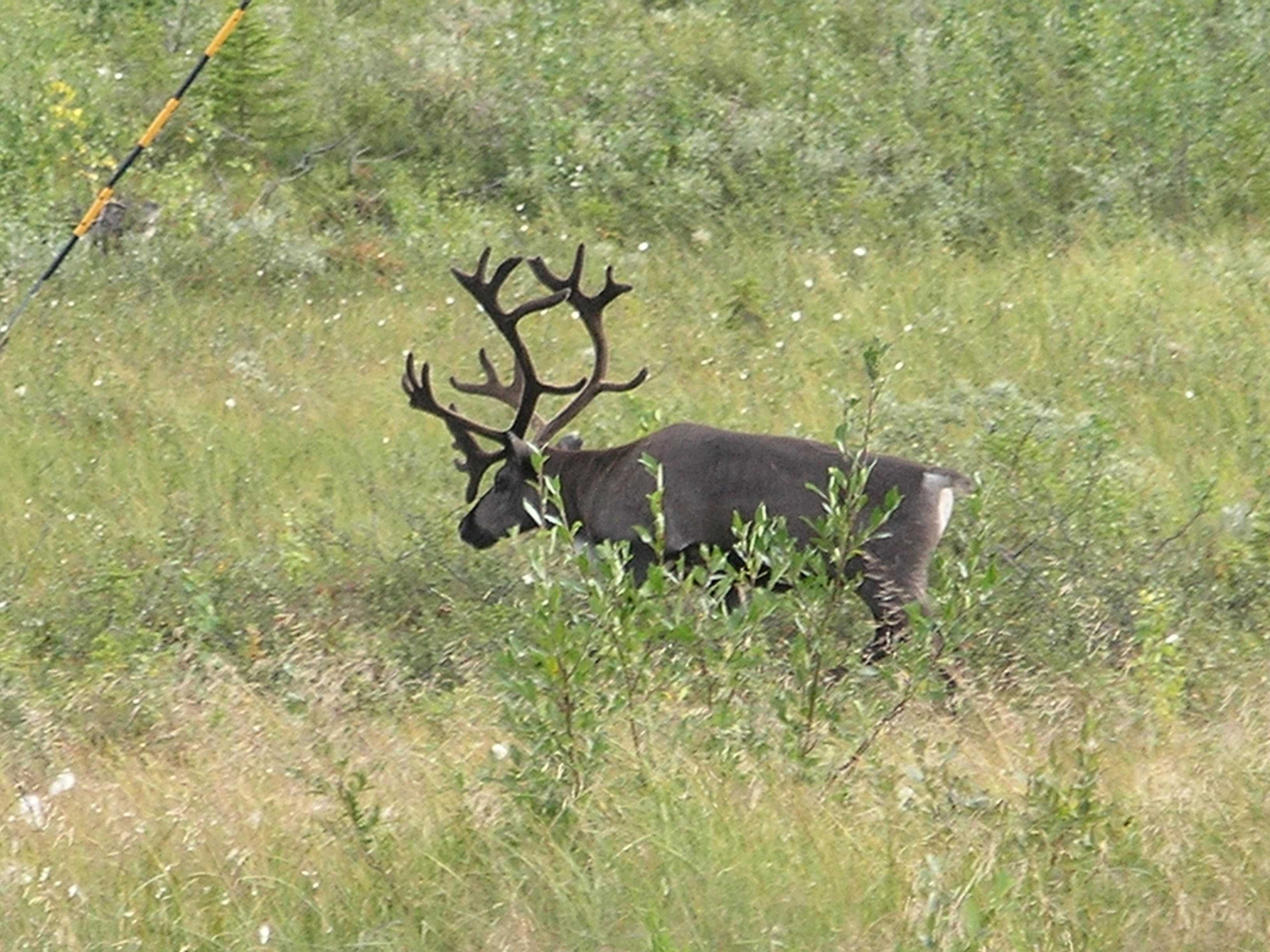 Male reindeer